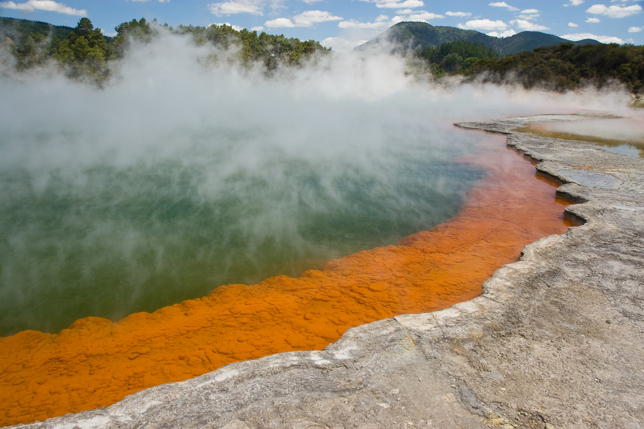 Champagne Pool, Wai-O-Tapu, near Rotorua, New Zealand